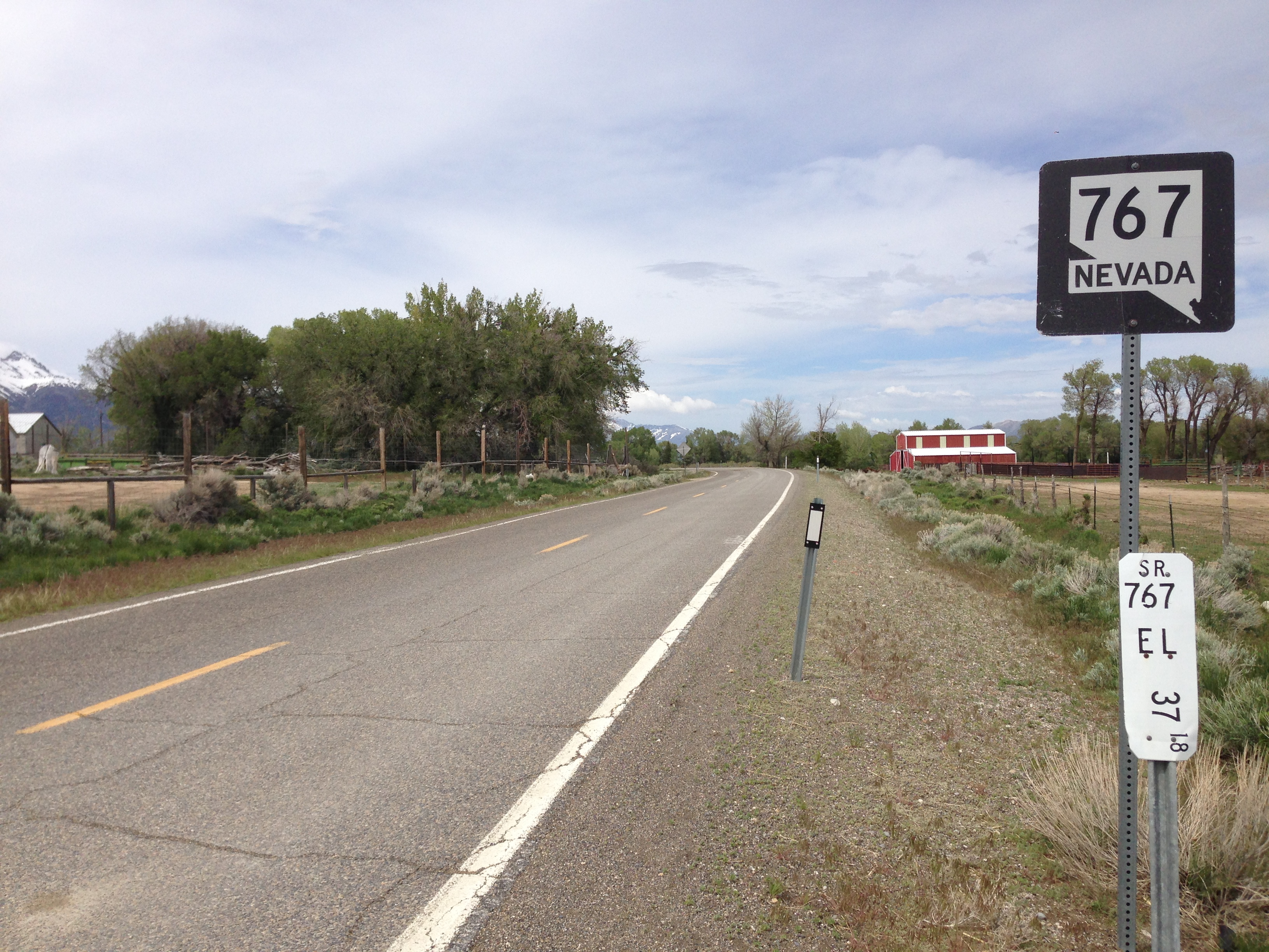 Sign at the south end of northbound Nevada State Route 767 in Ruby Valley, Nevada